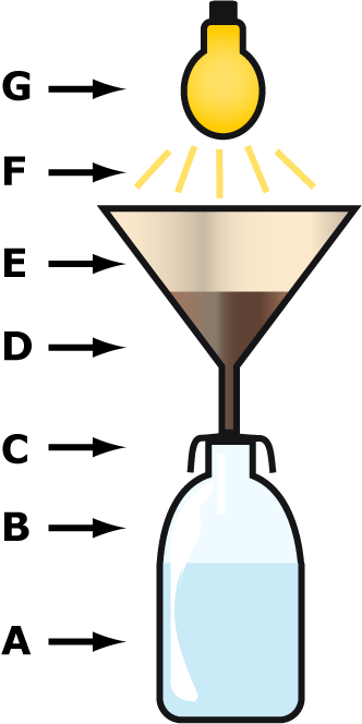 Berlese system. Legend: A : liquide for conservation (alcohol at 70°) B : bottle C : filter D : ground, litter, leafs... E : funnel F : heat G : source of heat